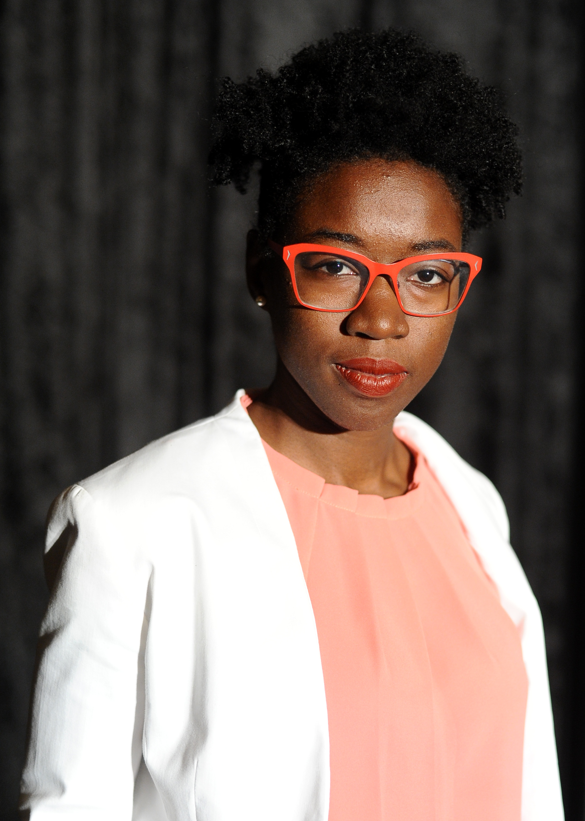 Joy Buolamwini at Wikimania 2018 in Cape Town, South Africa.